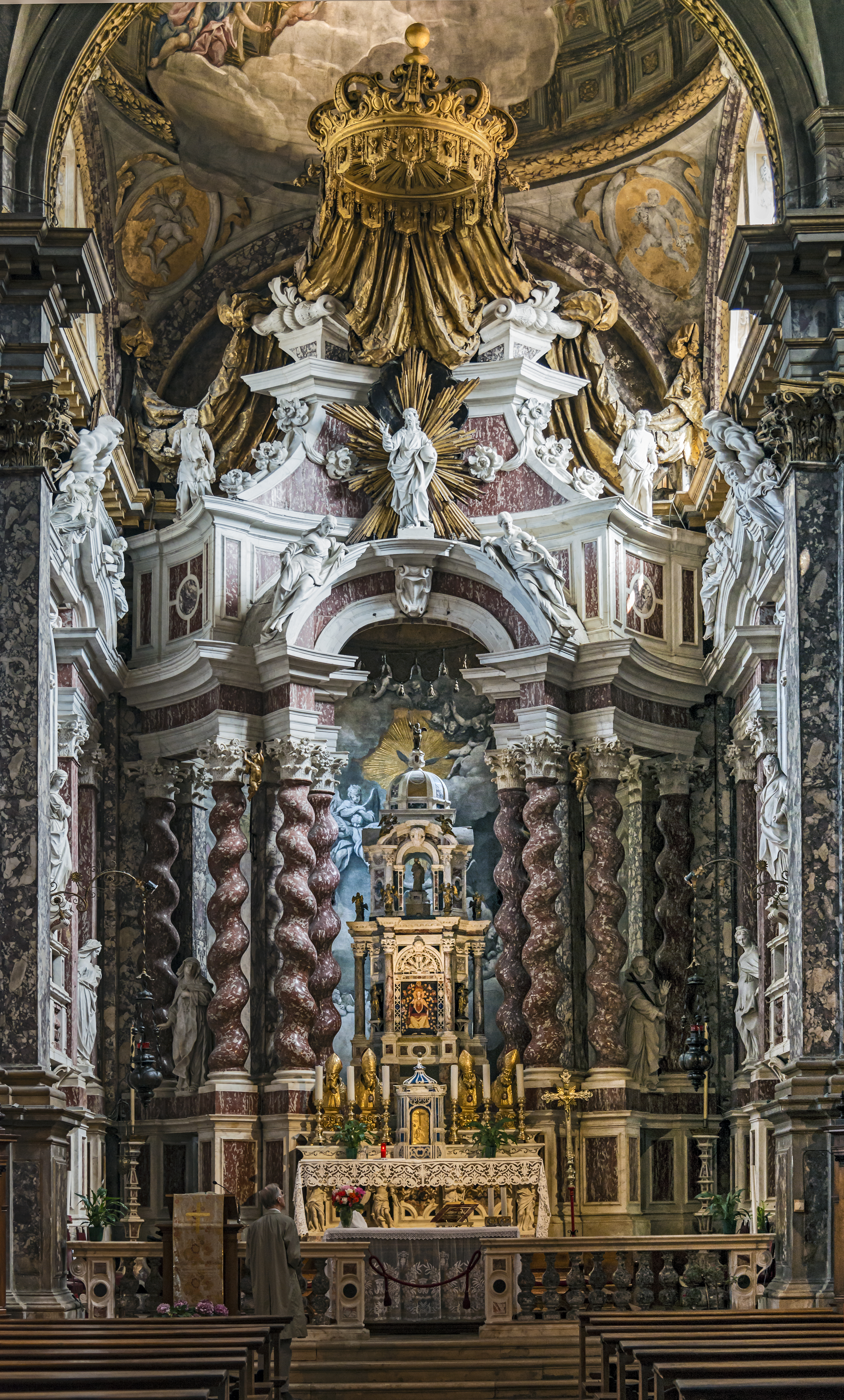 Church Santa Maria degli Scalzi Venice. The main altar.